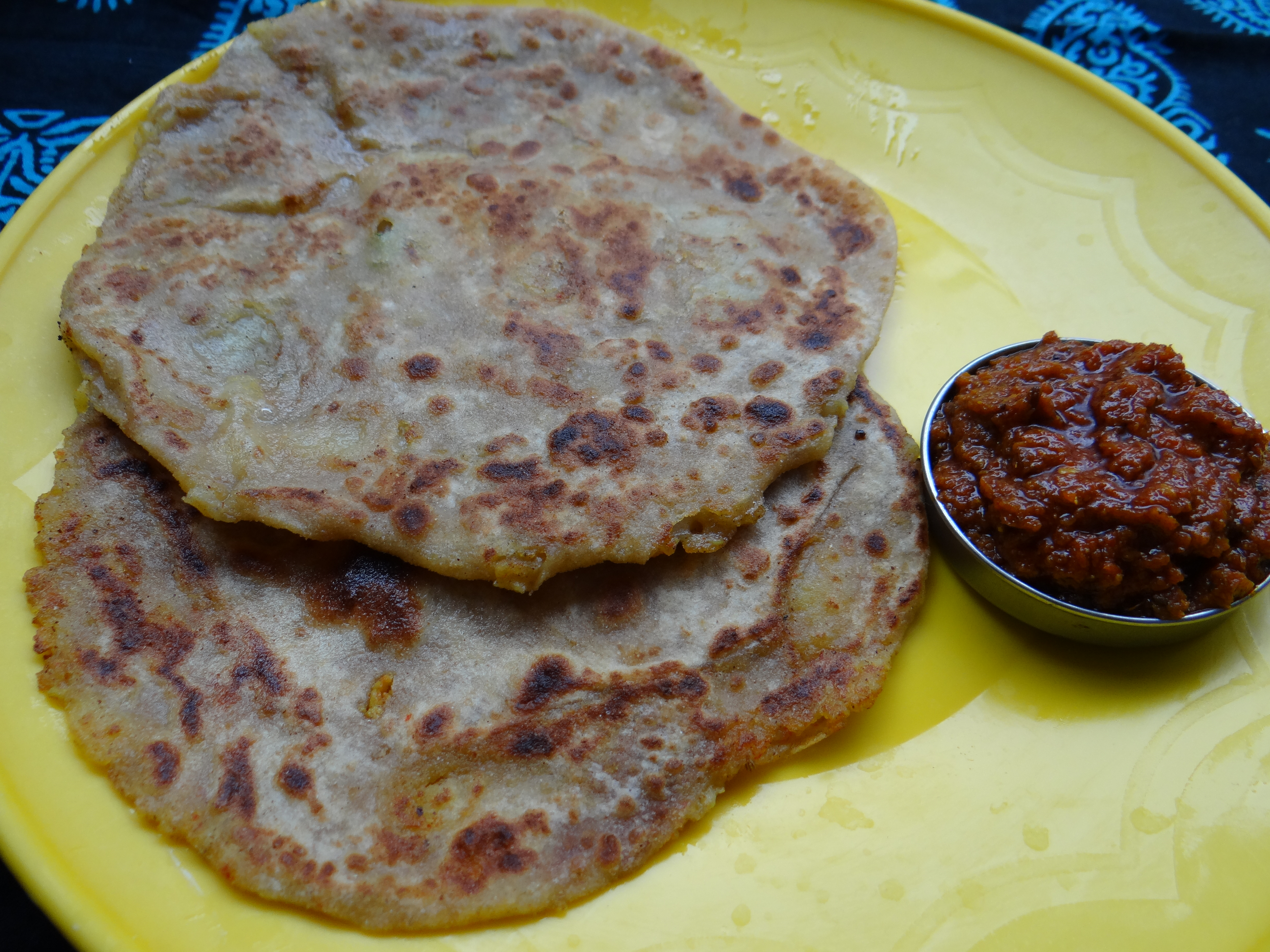 Aloo Paratha is everyone's favourite delicious shallow fried stuffed bread popular among all generations of people across India..